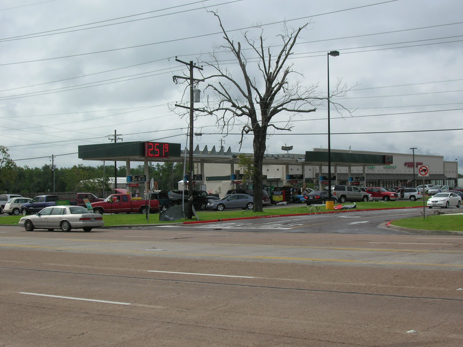 Residents in Southeast Texas form lines at gas stations that have power after Hurricane Humberto (2007). Many of the gas purchases are for generators only as power is out in random patterns in Jefferson County. This gas station had canopy damage from the high winds.